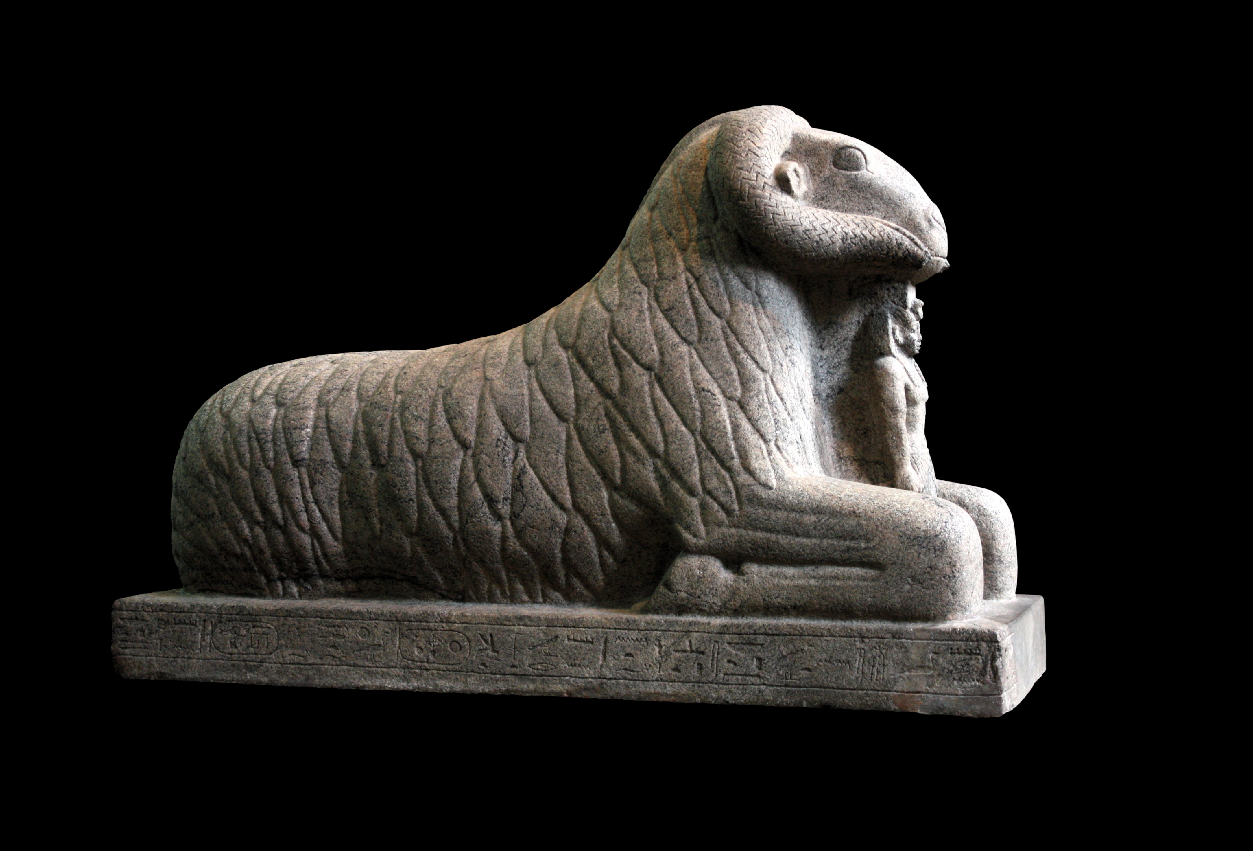 Granite ram of Amun with King Taharqa. Twenty-Fifth Dynasty, from Kawa in Nubia.